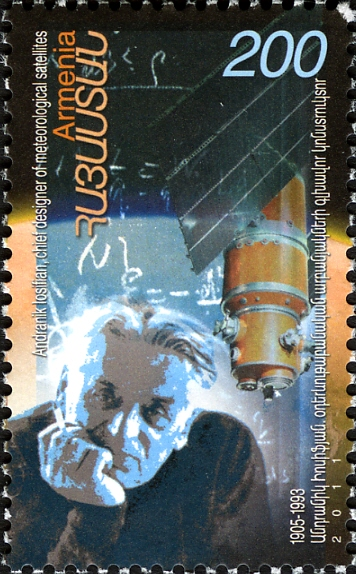 Andranik Iosifyan (1905-1993) - Chief Constructor of Meteorological Satellites